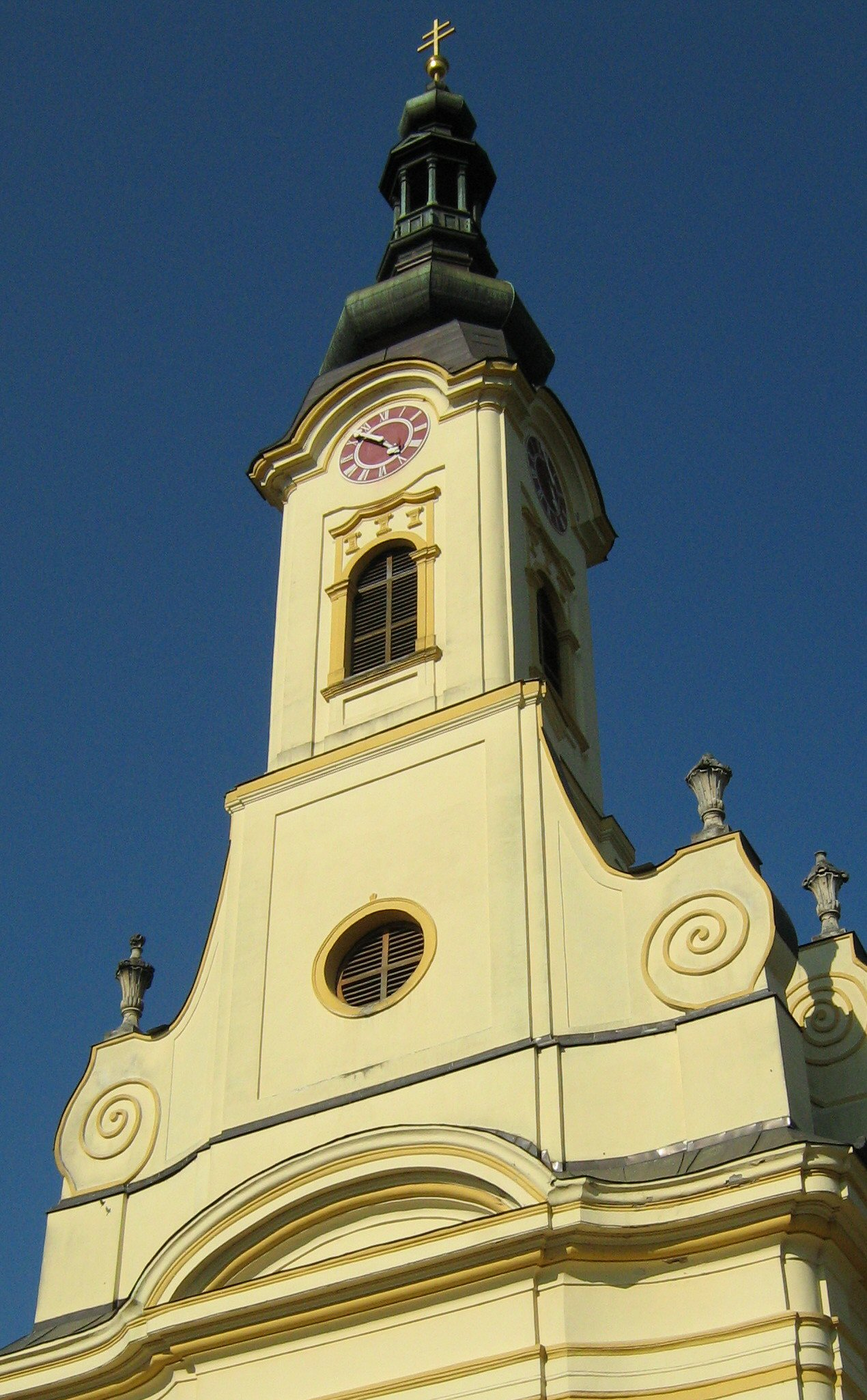 Tower of the baroque Cathedral of Saint Teresa of Ávila. Location: St. Teresa of Ávila Square, Pozega, Croatia.